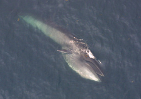 A Sei Whale surfacing. Obtained from NOAA